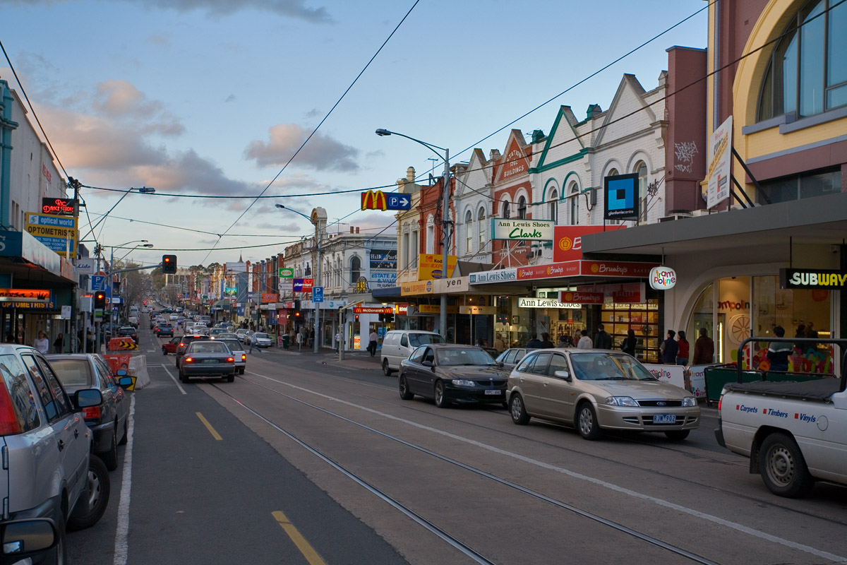 Glenferrie Road, Hawthorn, looking north towards Kew. Taken with a Canon 5D and 17-40mm f/4L on the 13th of October, 2005.